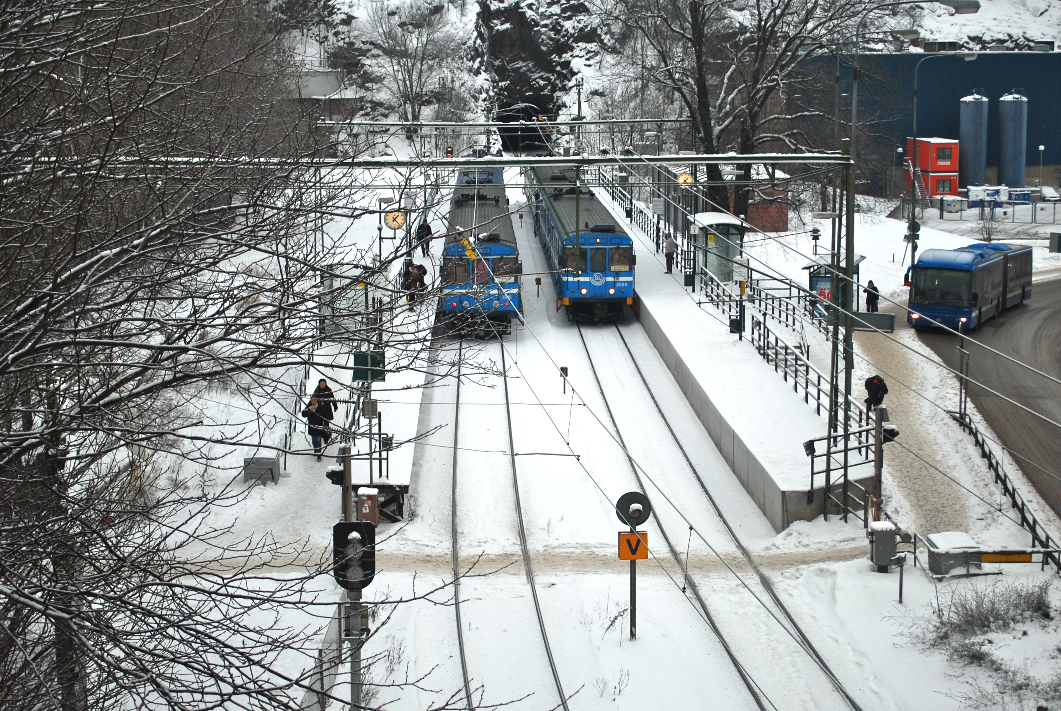 Henriksdals station.